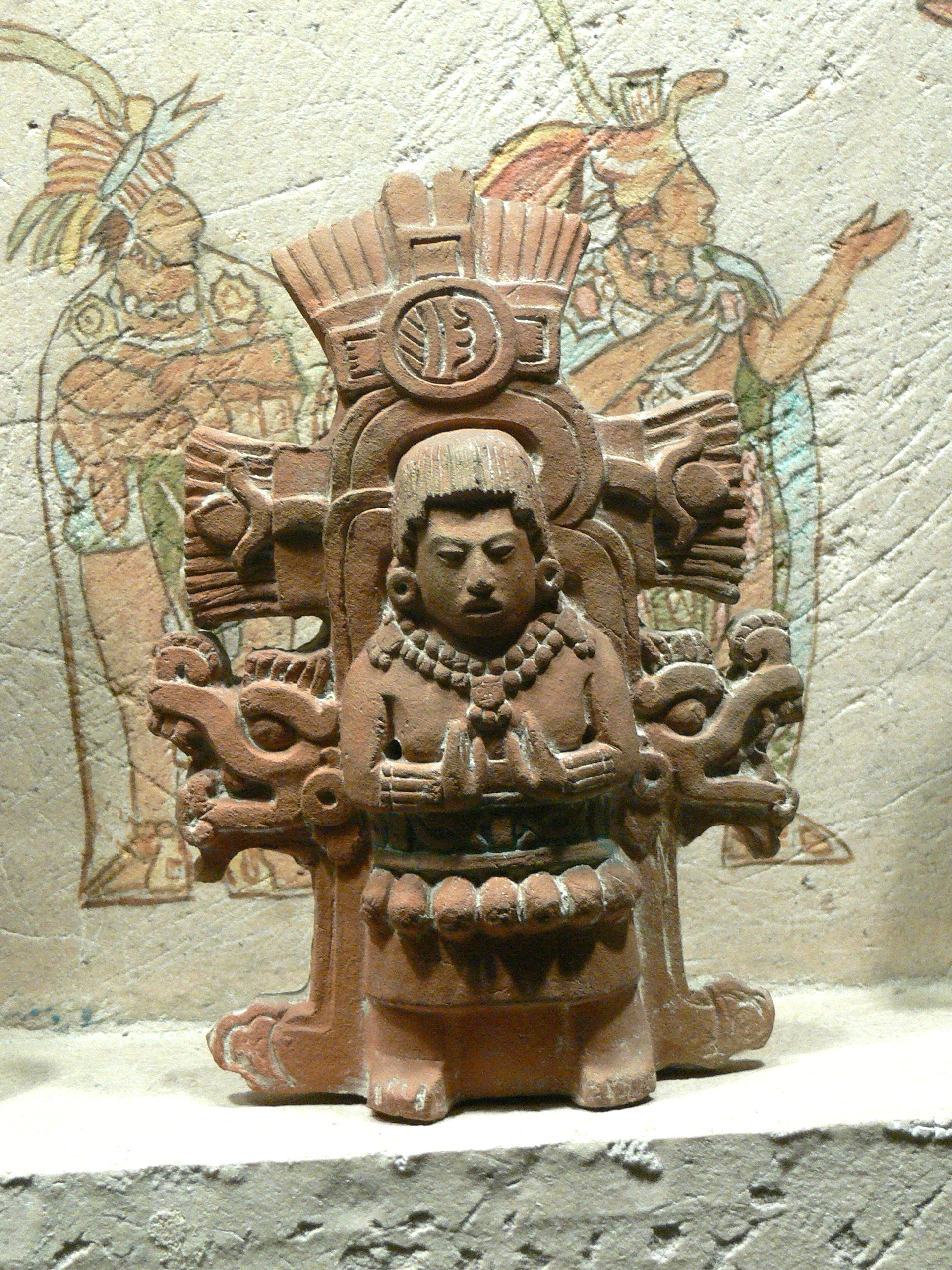 National Museum of Anthropology in Mexico City. Figure of a Maya priest.